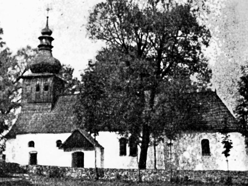 first church lipnica mała